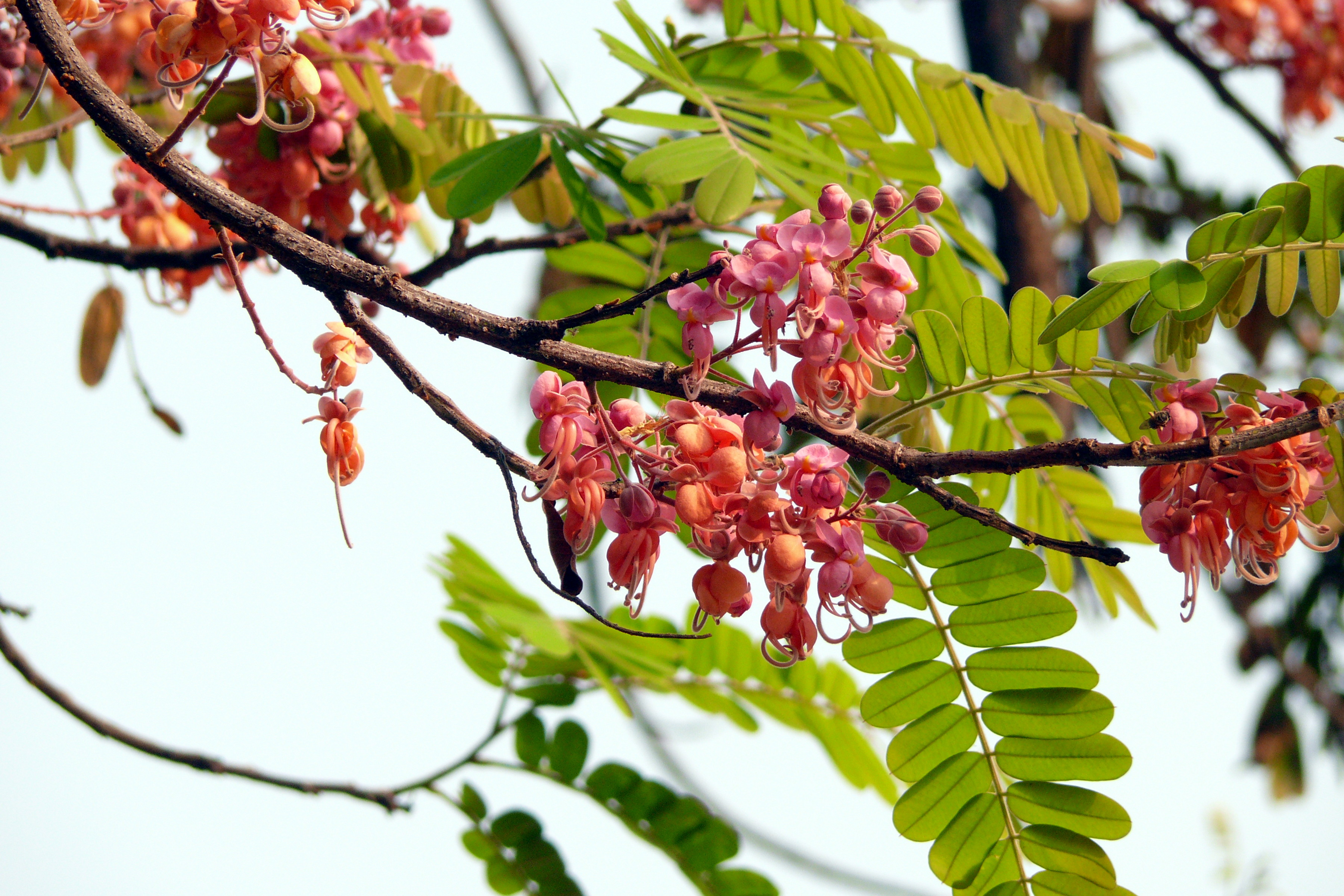 Cassia grandis in Kochi (India)